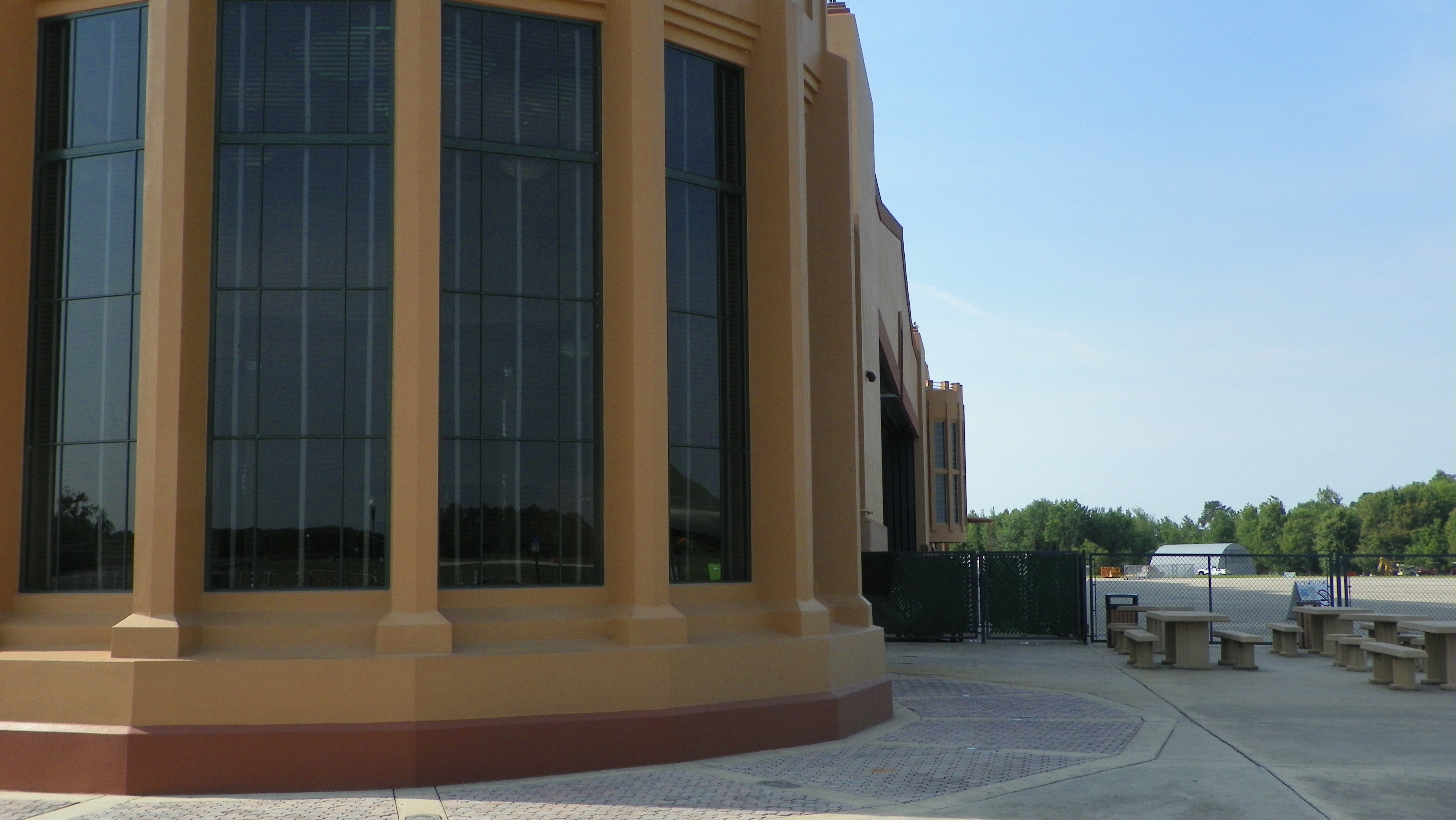 Fantasy of Flight Front Entrance - Compass Rose Window